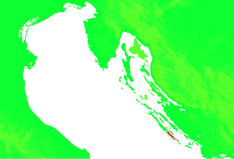 Island of Croatia Croatia - Kornat.PNG